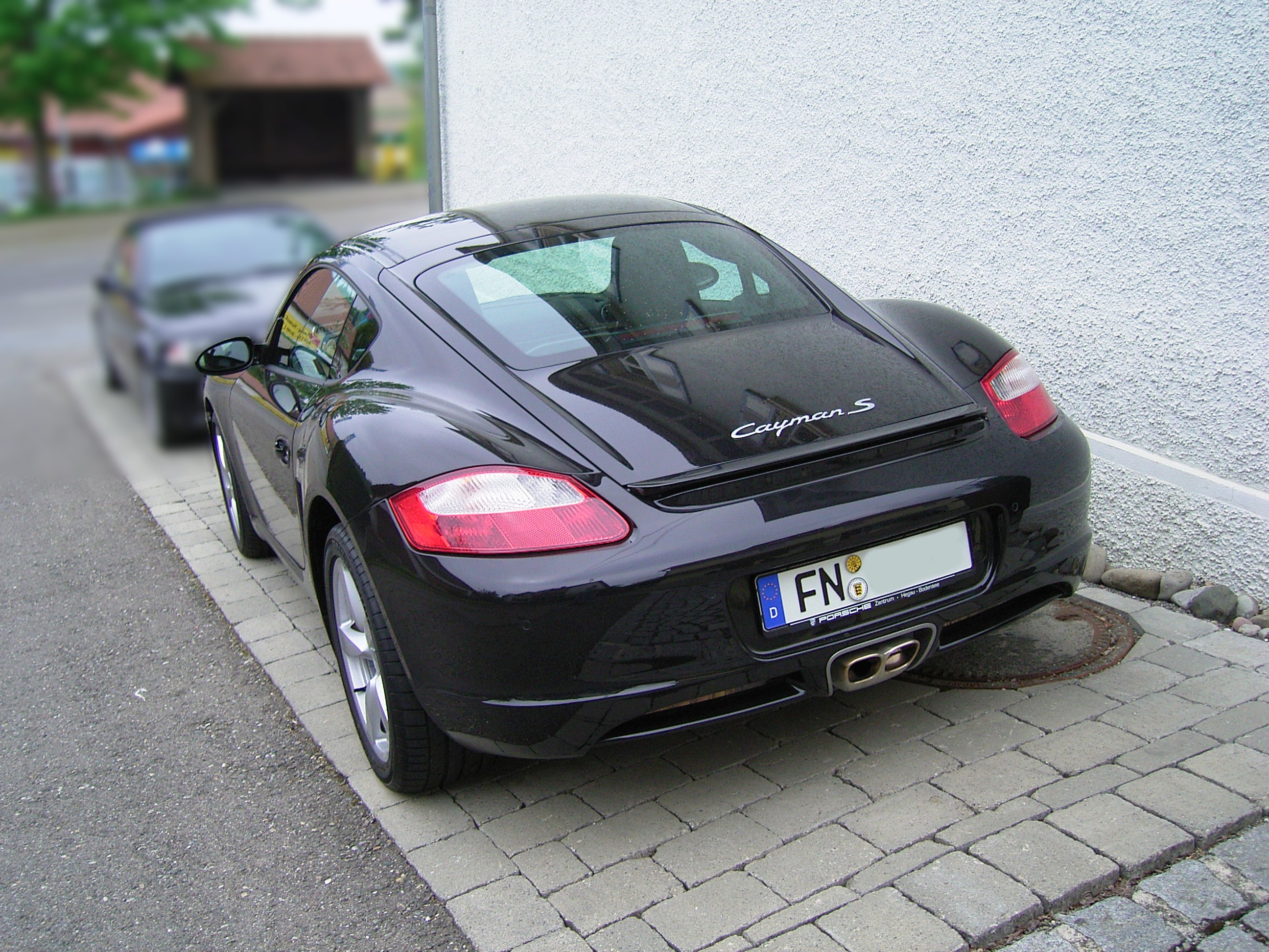 A black Porsche Cayman in Front-left view